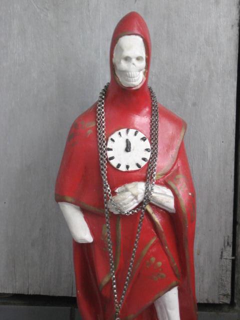 Exu Meia-Noite do Cemitério